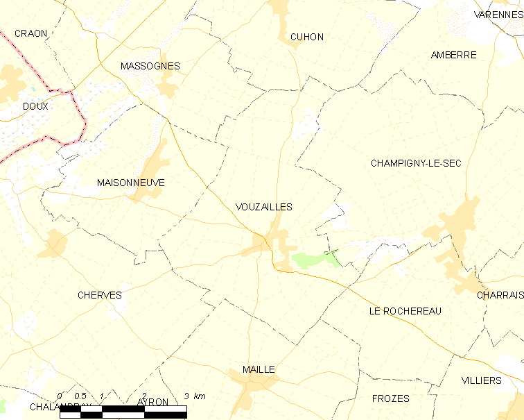 Map of French municipality Vouzailles